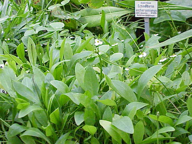 Species: Echinodorus isthmicus Family: Alismataceae Image No. 4